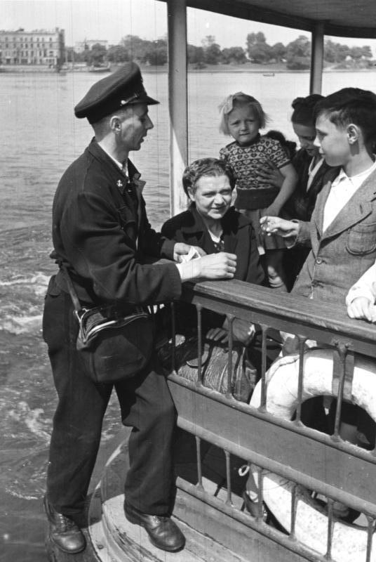 Translation of the original caption from the German Federal Archive: Hamburg, Conductor collects fares on an Alster ferry Illustration dpd Alster conductors are acrobats. When the Alster ferries in Hamburg are all too crowded during business hours, the conductors have to collect fares from the outside. June 30, 1949 [publication date] 3541-49